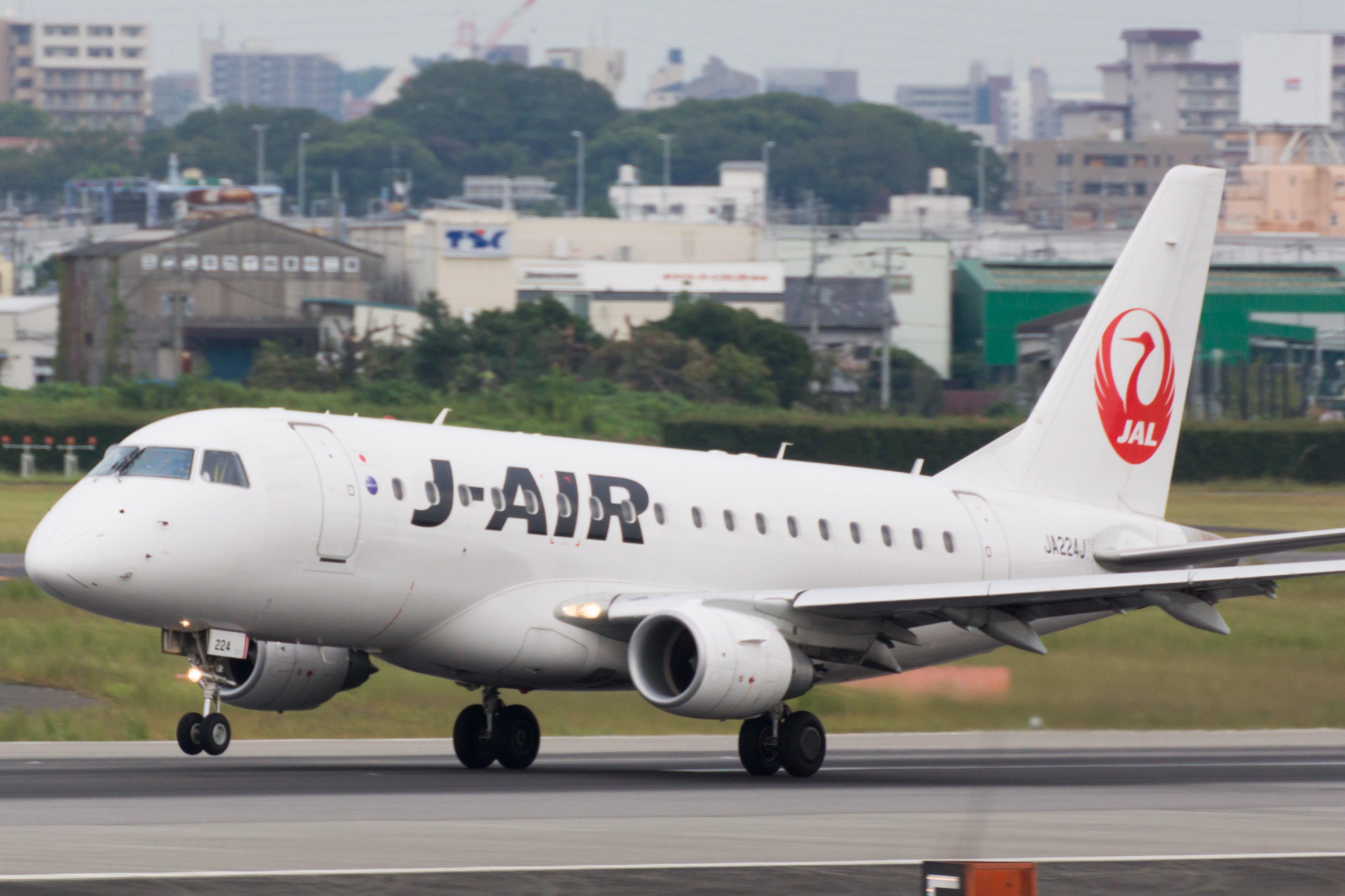 J-Air / ジェイ・エア Embraer ERJ-170-100 (ERJ-170STD) JA224J JL2157, Departed to Aomori Osaka Itami Int'l Airport